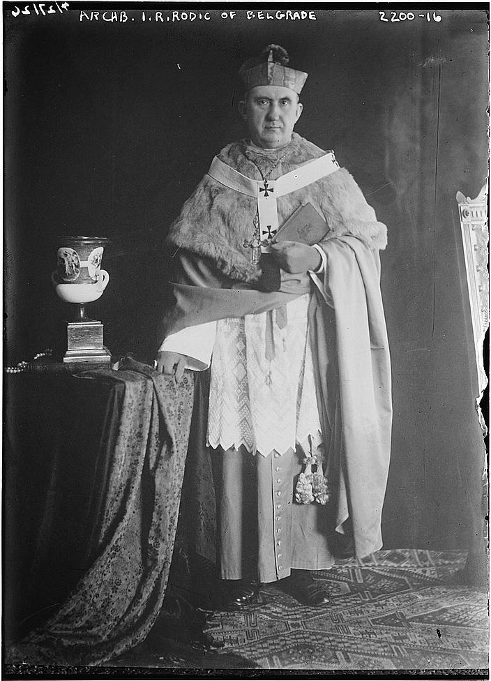 Bain News Service,, publisher. ArchB. Giovanni Raffaele Rodic of Belgrade 1 negative : glass ; 5 x 7 in. or smaller. Notes: Title from unverified data provided by the Bain News Service on the negatives or caption cards. Forms part of: George Grantham Bain Collection (Library of Congress). Format: Glass negatives. Repository: Library of Congress, Prints and Photographs Division, Washington, D.C. 20540 USA, General information about the Bain Collection is available at Persistent URL